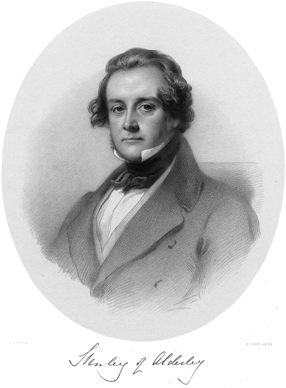 Portrait of Edward Stanley, 2nd Baron Stanley of Alderley